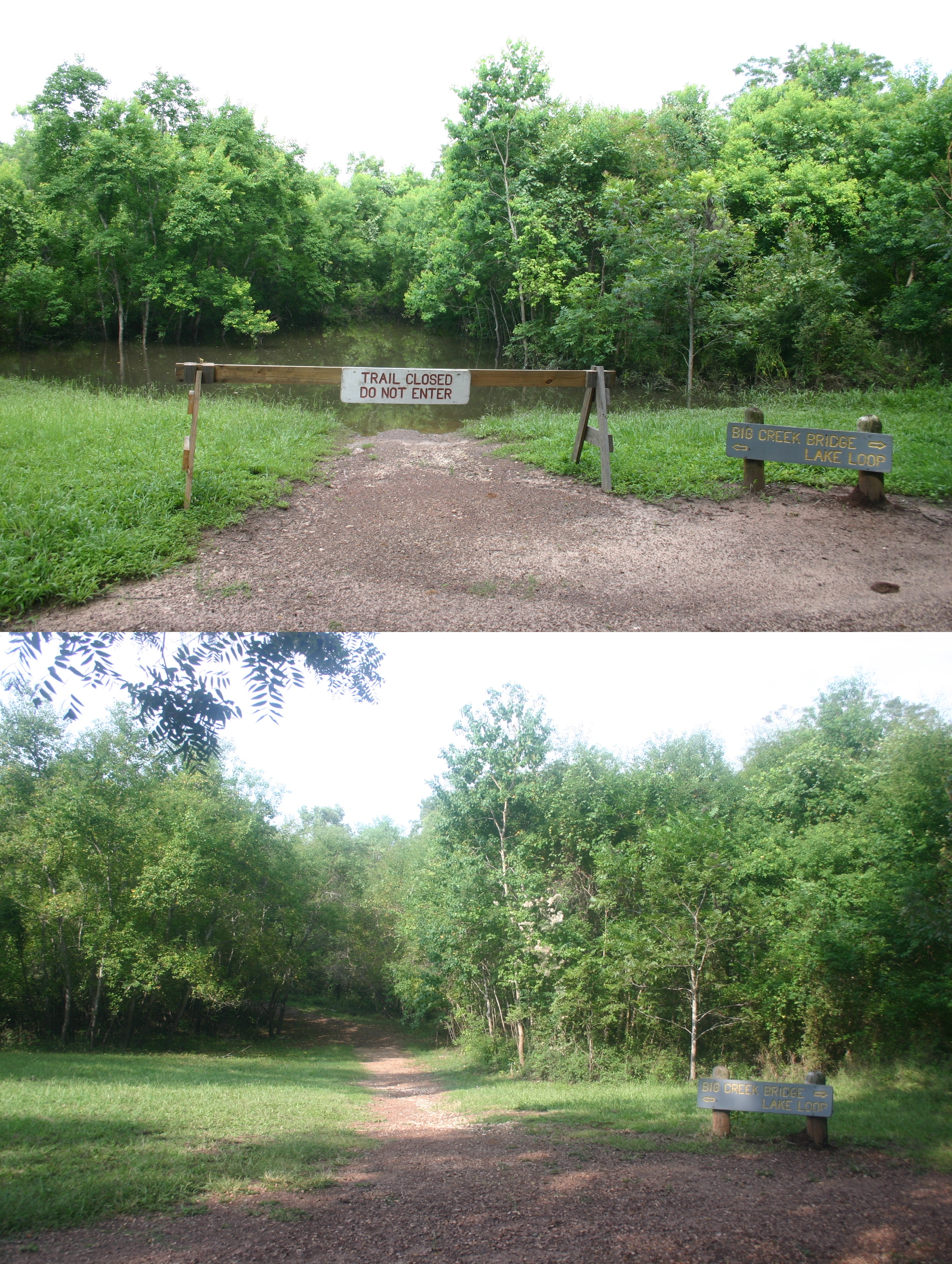 During and after the flooding of Hale Lake blocking the Lake Loop hiking trail.